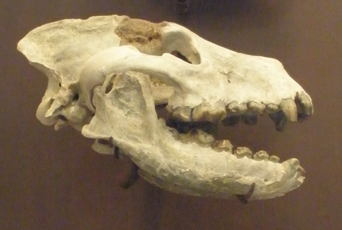 Skull of Aelurodon taxoides, a fossil canid